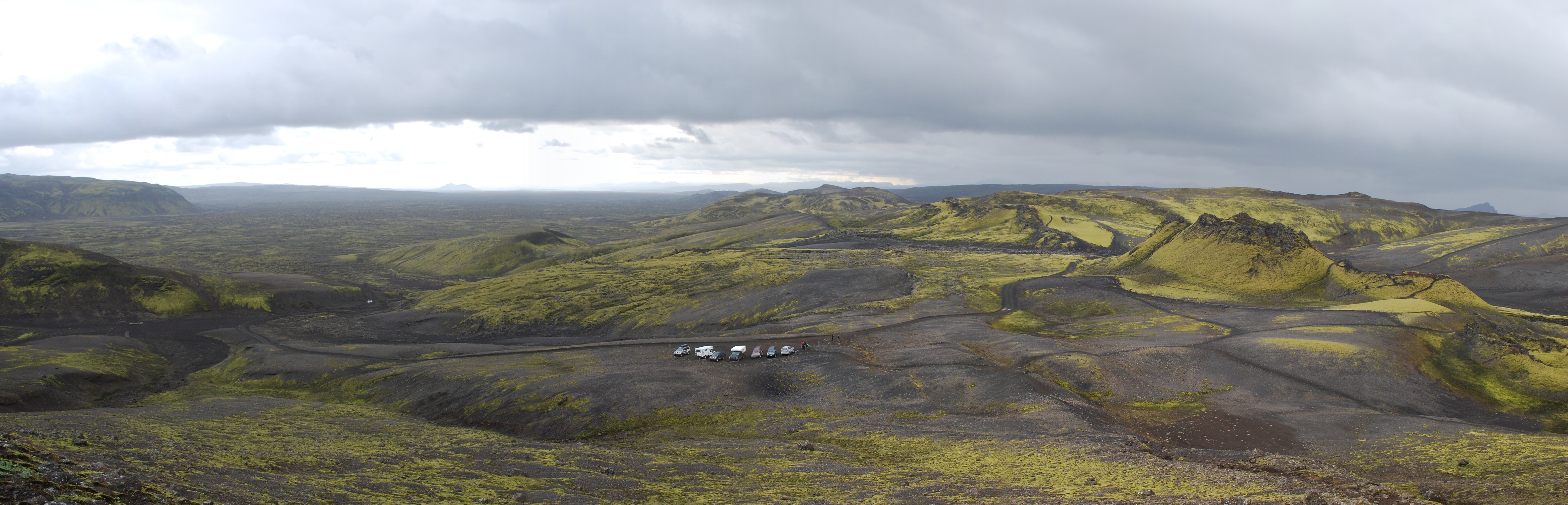 Sight to the lava flows near Laki with central fissure, Iceland